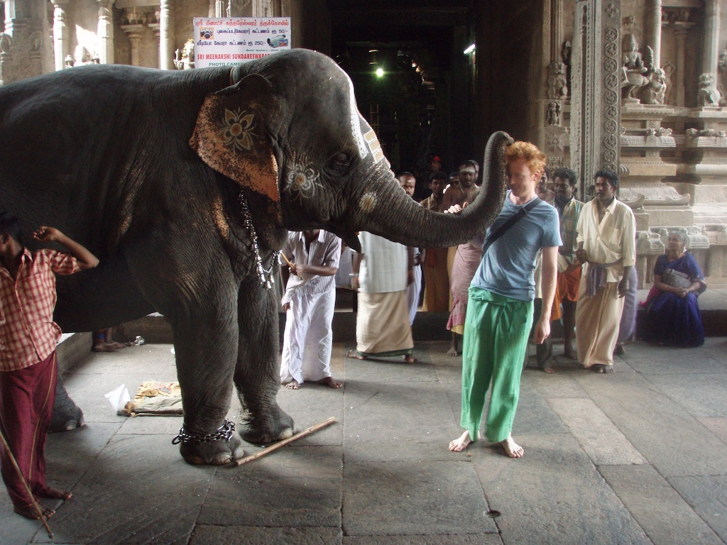 A western tourist is blessed by the temple elephant at Meenakshi temple in Madurai, India.